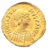 Alaric_II_484_507_gold_1470mg_reverse (Wisigothic tremissis). Minted in the name of Byzantine emperor Anastasius I (491-518). Portrait of Anastasius depicted on the coin.